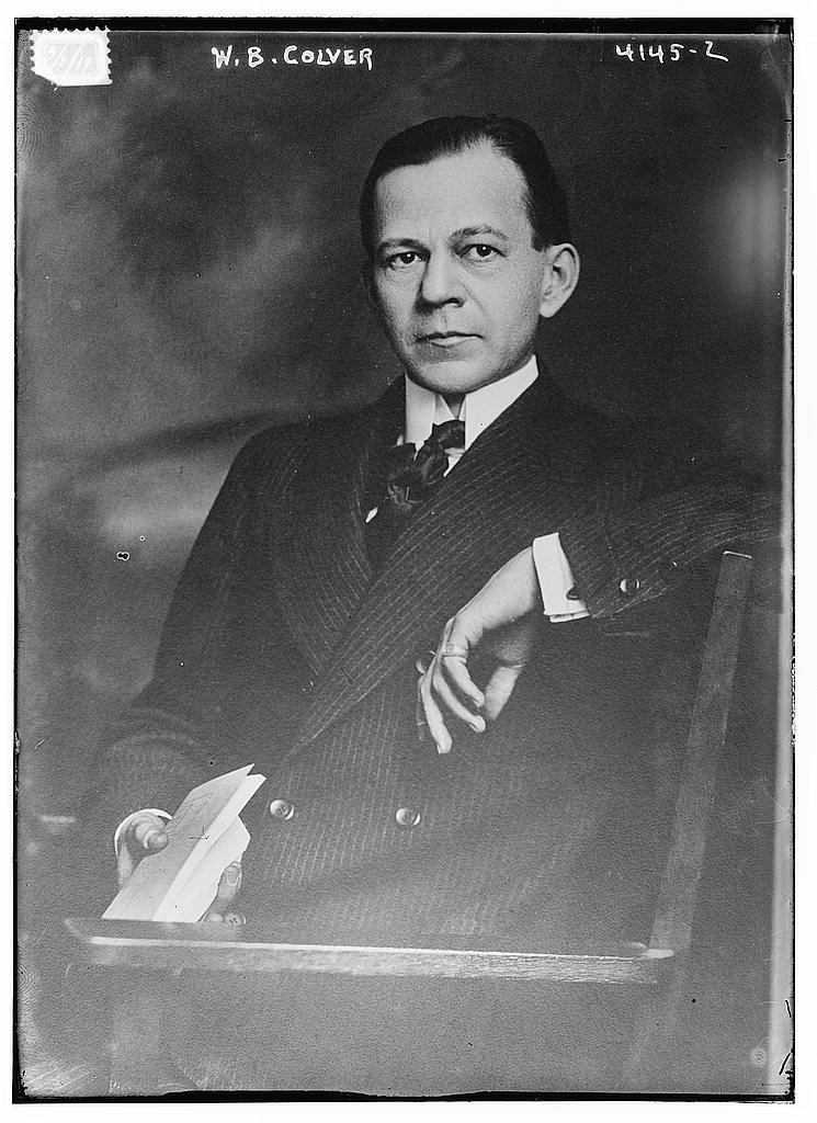 William Byron Colver in 1917